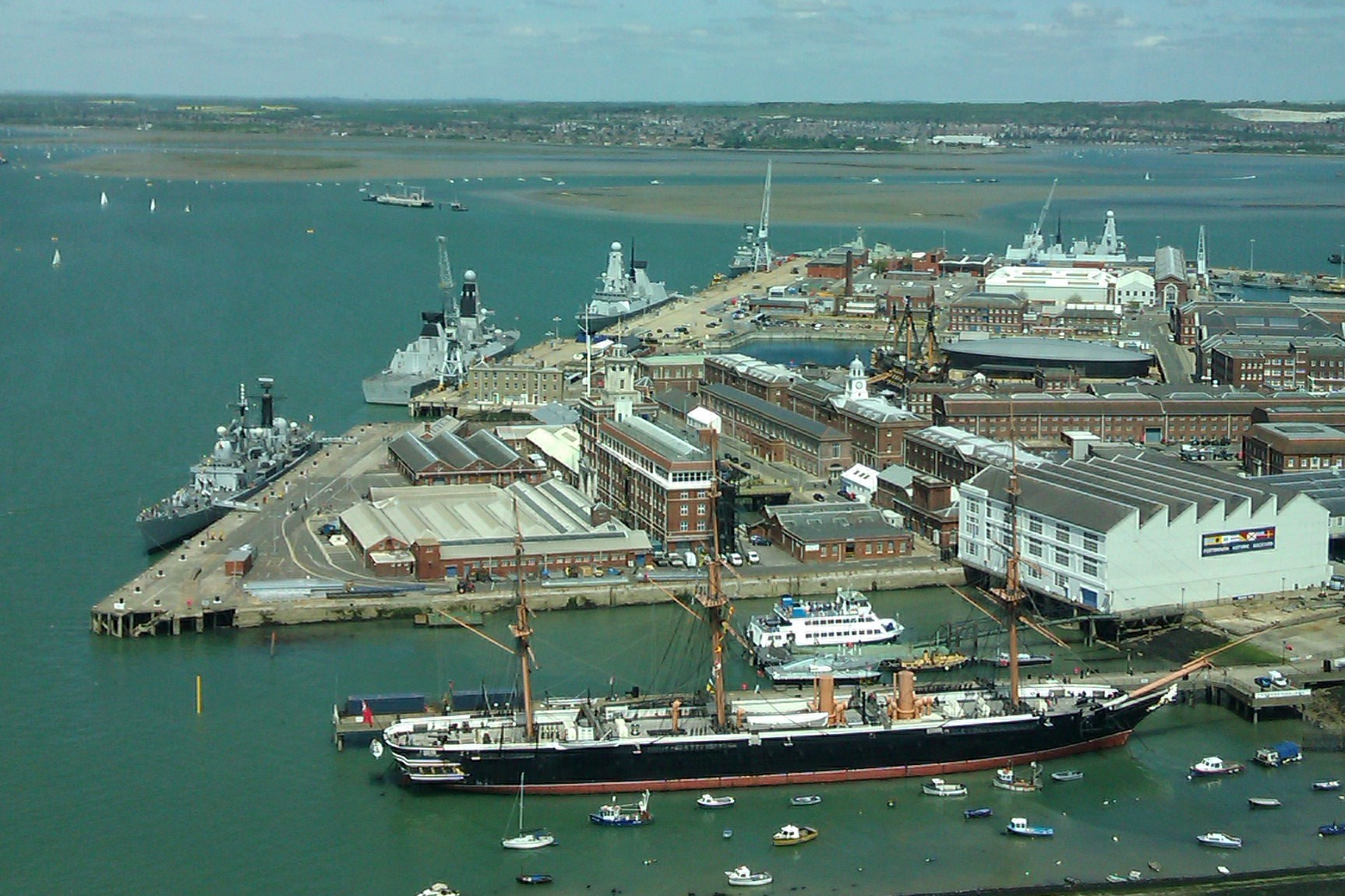 HMS Edinburgh with HMS Defender and HMS Duncan at Portsmouth, 1st June 2013